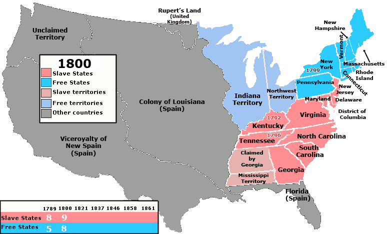 Map showing which areas of the United States did and did not allow slavery between July 4 1800 to July 10 1800. Territories and states which had not specifically banned slavery are colored red/pink.